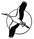 Logo of the Bird Study and Protection Society of Vojvodina (BSPSV) – today Bird Study and Protection Society of Serbia (BSPSS)